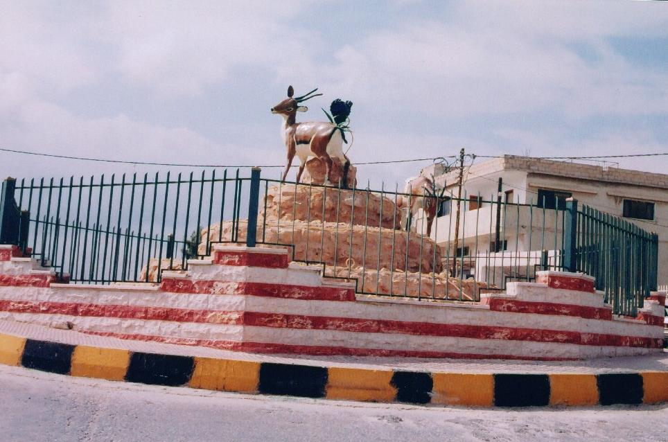 كفر راكب/دوار الغزلان